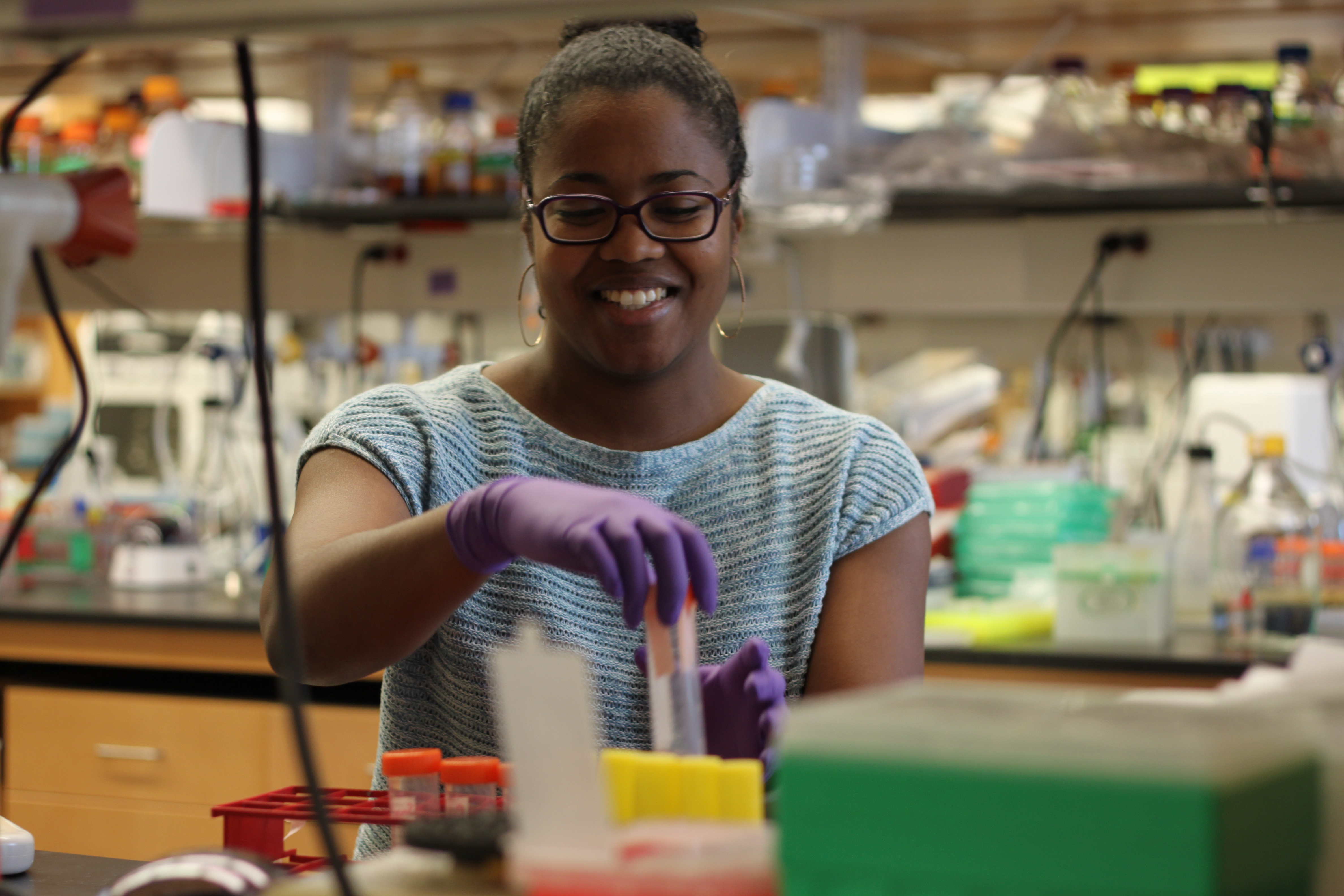 A Postdoctoral fellow in Biochemistry working at the bench